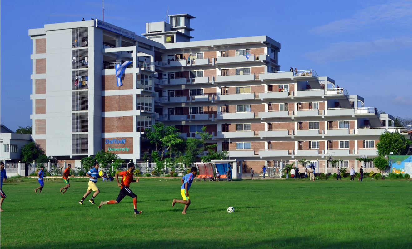 Ashulia Campus Part of Academic Building. Daffodil International University, Dhanmondi, Dhaka, Bangladesh